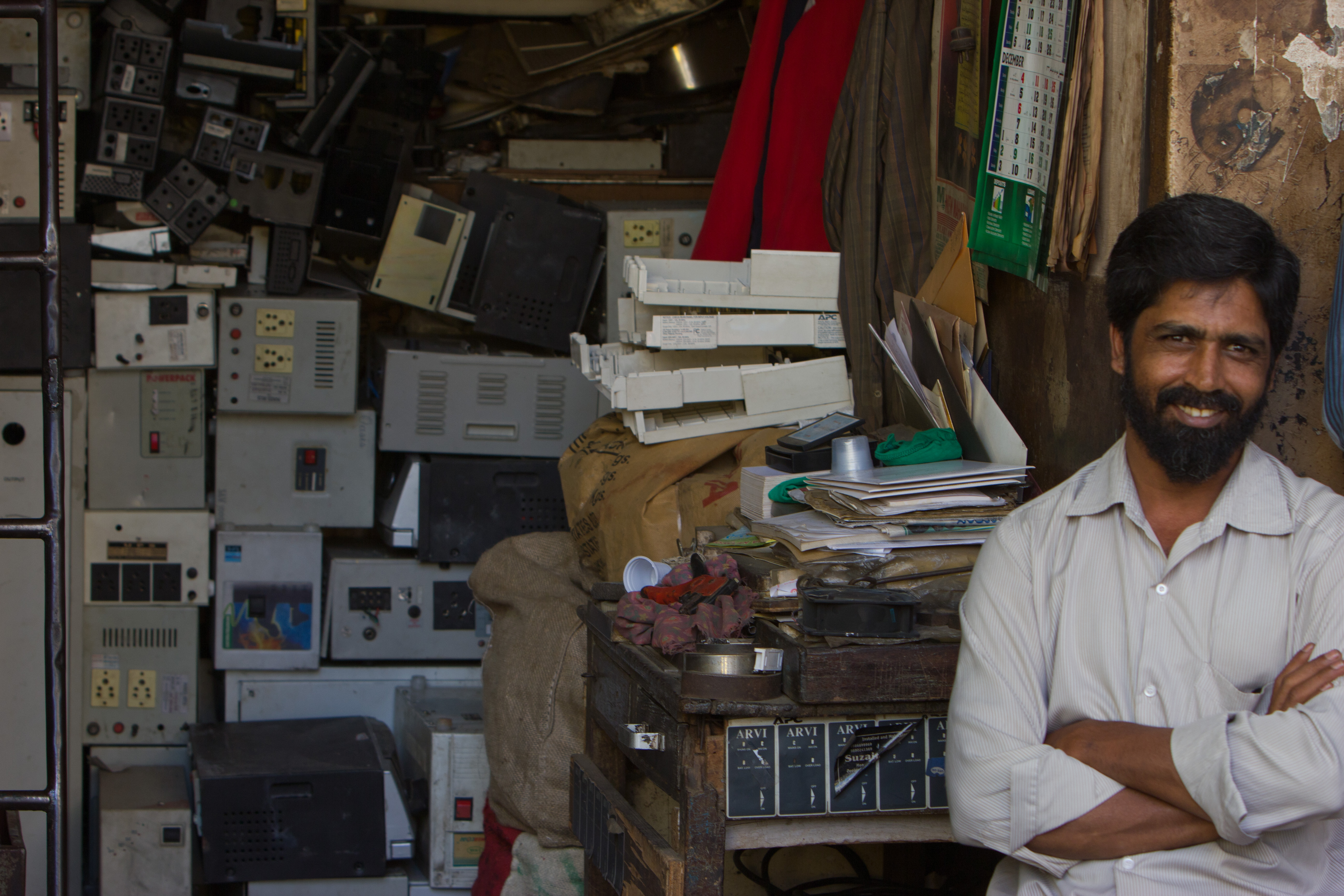 India Bangalore Victor Grigas